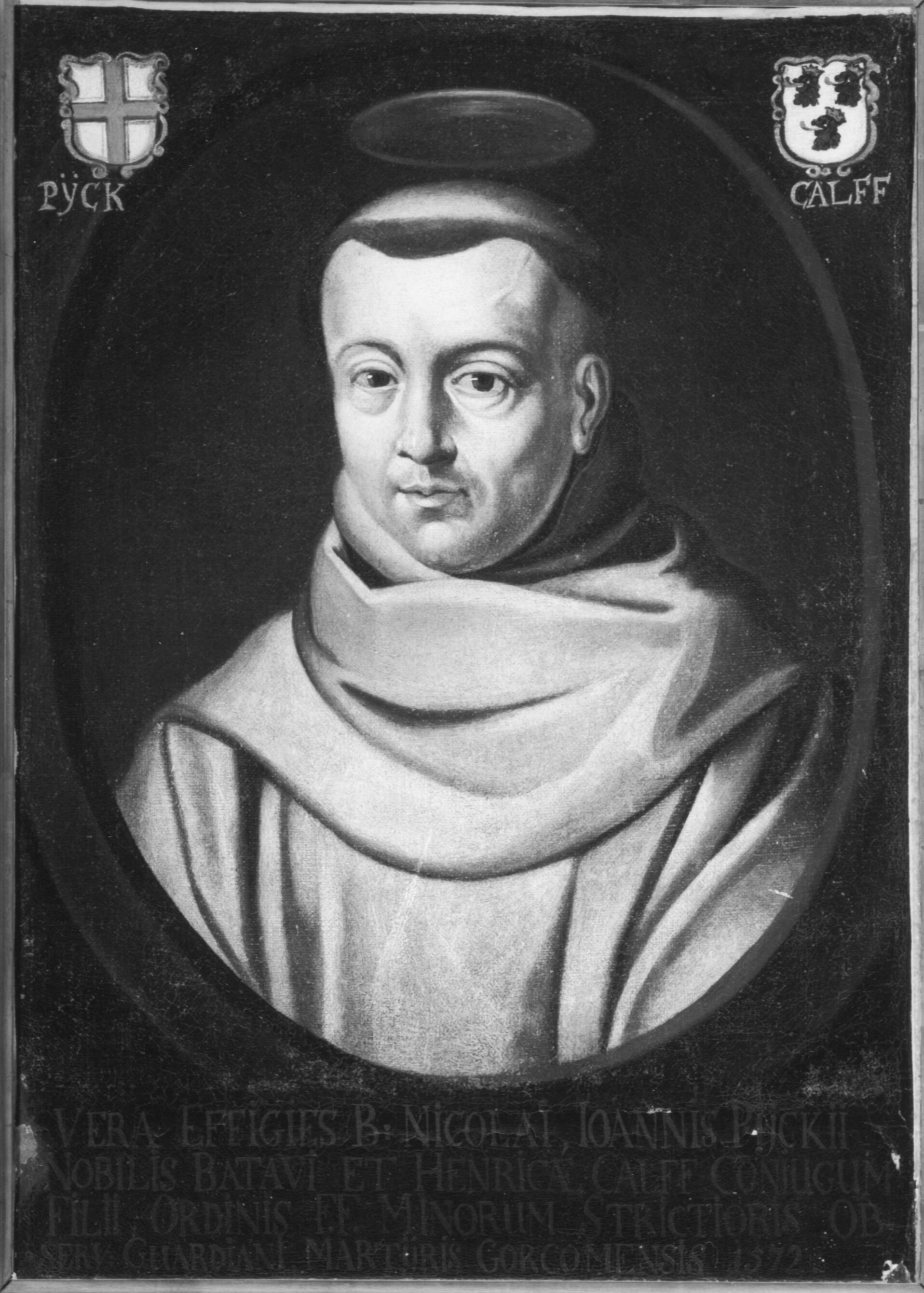 Collection Museum Catharijneconvent, Utrecht , inv./cat.nr BMH s1502